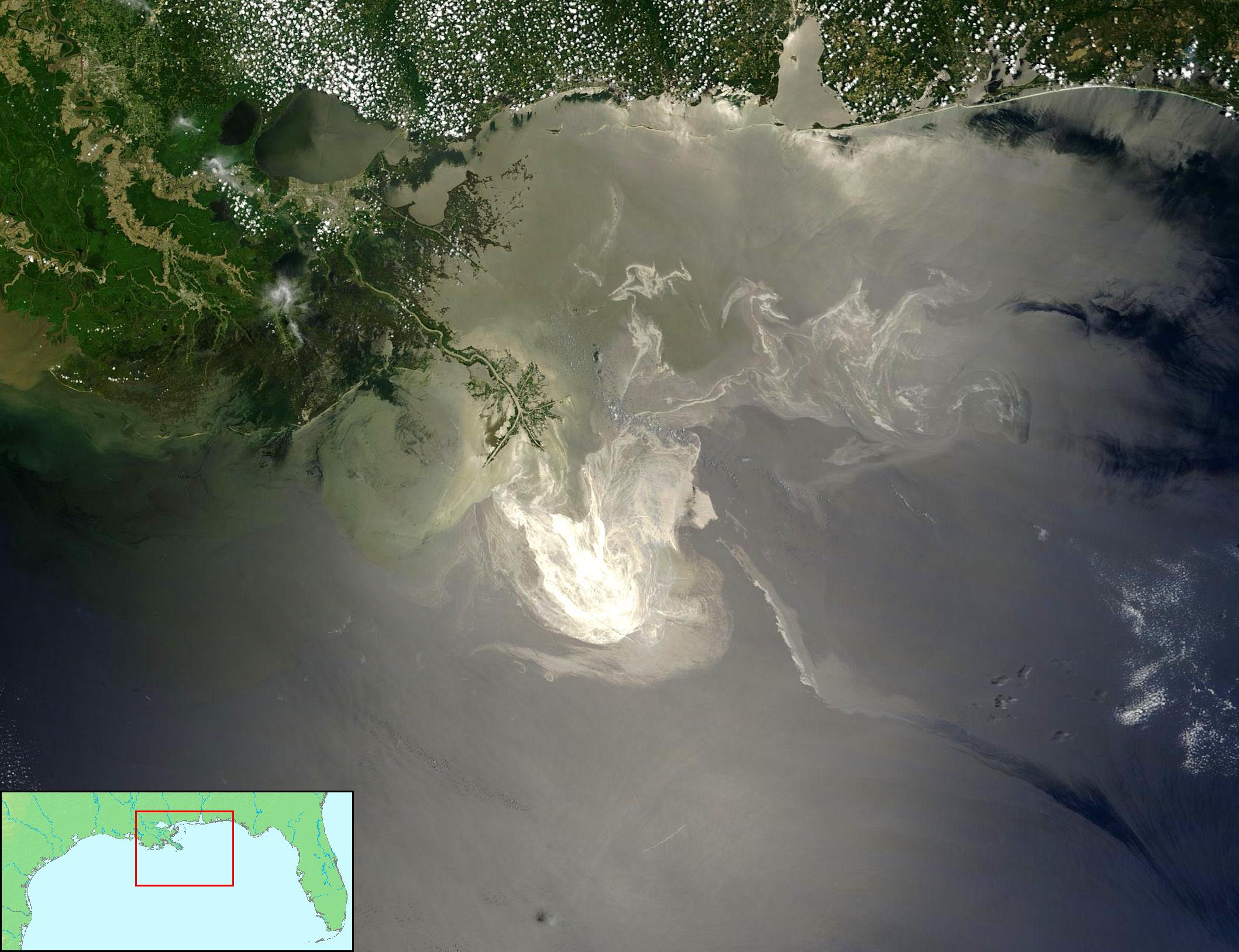 Description from NASA (source): "NASA's Terra Satellites Sees Spill on May 24 Sunlight illuminated the lingering oil slick off the Mississippi Delta on May 24, 2010. The Moderate-Resolution Imaging Spectroradiometer (MODIS) on NASA’s Terra satellite captured this image the same day. Oil smoothes the ocean surface, making the Sun’s reflection brighter near the centerline of the path of the satellite, and reducing the scattering of sunlight in other places. As a result, the oil slick is brighter than the surrounding water in some places (image center) and darker than the surrounding water in others (image lower right). The tip of the Mississippi Delta is surrounded by muddy water that appears light tan. Bright white ribbons of oil streak across this sediment-laden water. Tendrils of oil extend to the north and east of the main body of the slick. A small, dark plume along the edge of the slick, not far from the original location of the Deepwater Horizon rig, indicates a possible controlled burn of oil on the ocean surface. To the west of the bird’s-foot part of the delta, dark patches in the water may also be oil, but detecting a manmade oil slick in coastal areas can be even more complicated than detecting it in the open ocean. When oil slicks are visible in satellite images, it is because they have changed how the water reflects light, either by making the Sun’s reflection brighter or by dampening the scattering of sunlight, which makes the oily area darker. In coastal areas, however, similar changes in reflectivity can occur from differences in salinity (fresh versus salt water) and from naturally produced oils from plants. Michon Scott NASA's Earth Observatory NASA Goddard Space Flight Center"